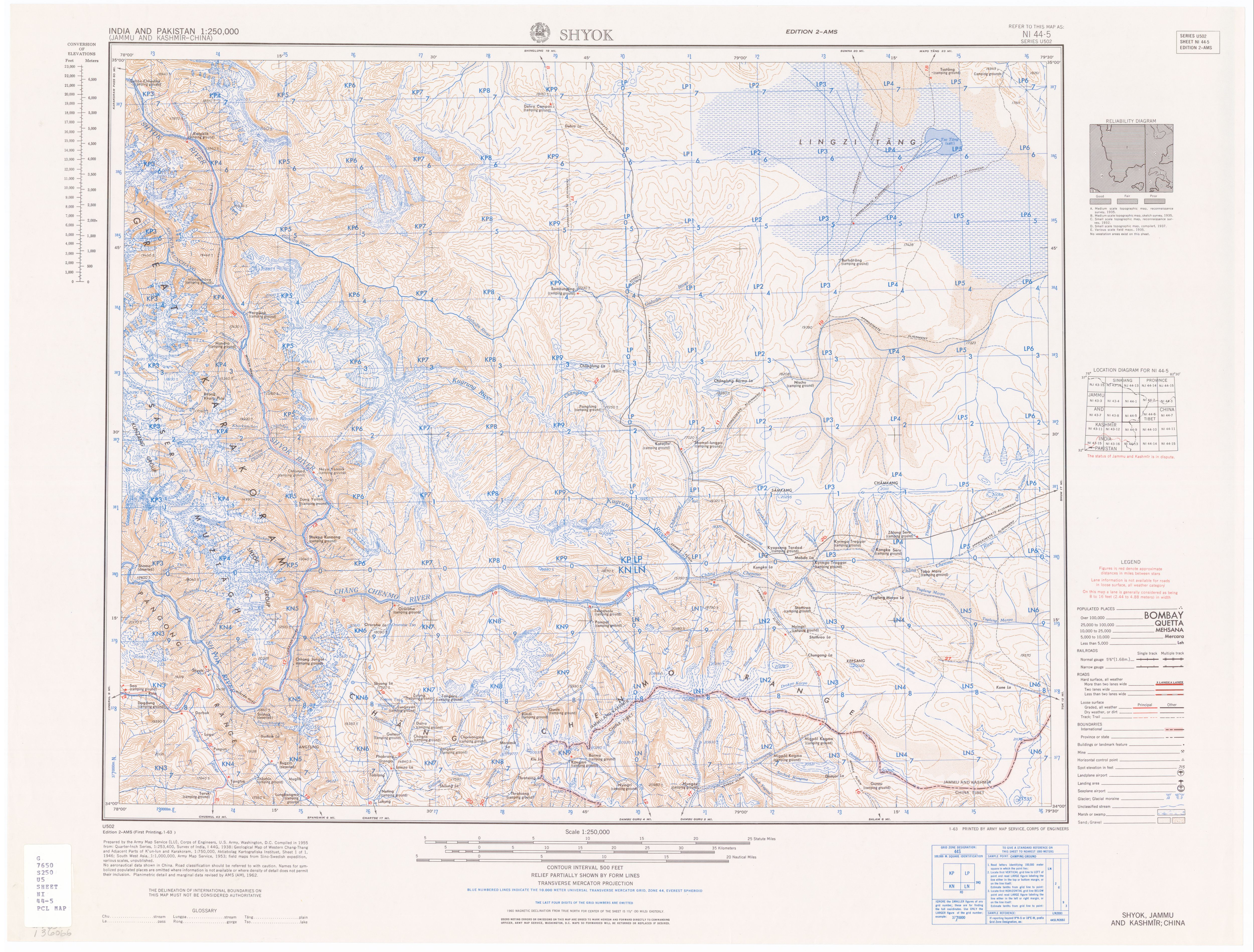 NI 44-5 Shyok. Tile of the Map India and Pakistan 1:250,000. Series U502, U.S. Army Map Service, 1955